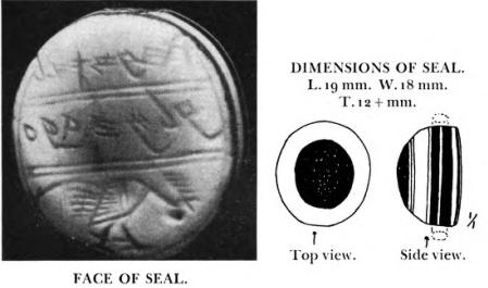 Photograph of the face of the Seal of Jaazanaiah and drawing showing its construction from black and white onyx. The round top suggests an eye with a large black pupil.